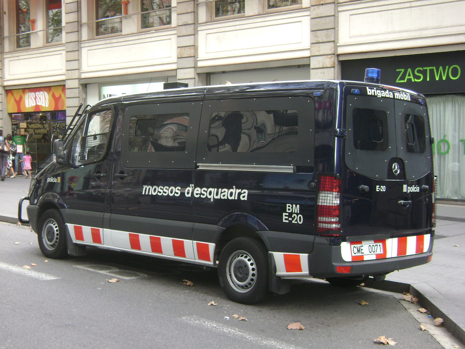 Riot-control van at La Rambla in Barcelona.